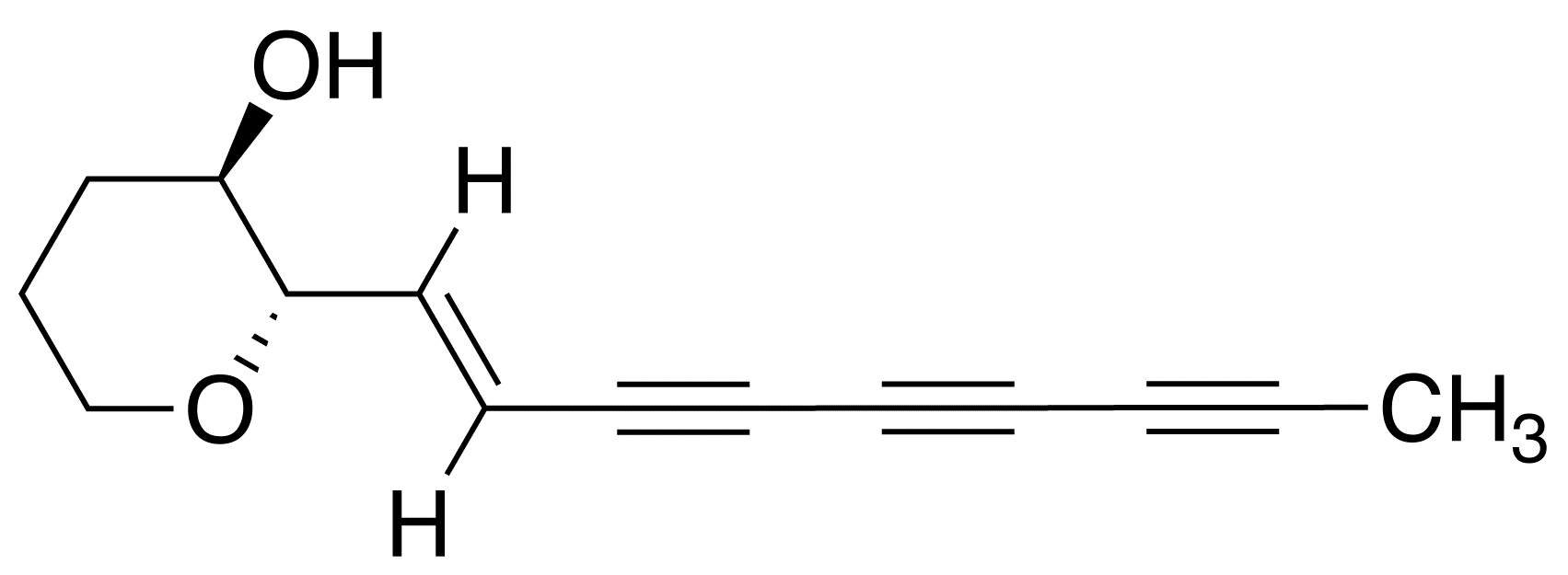 Skeletal structure of ichthyothereol